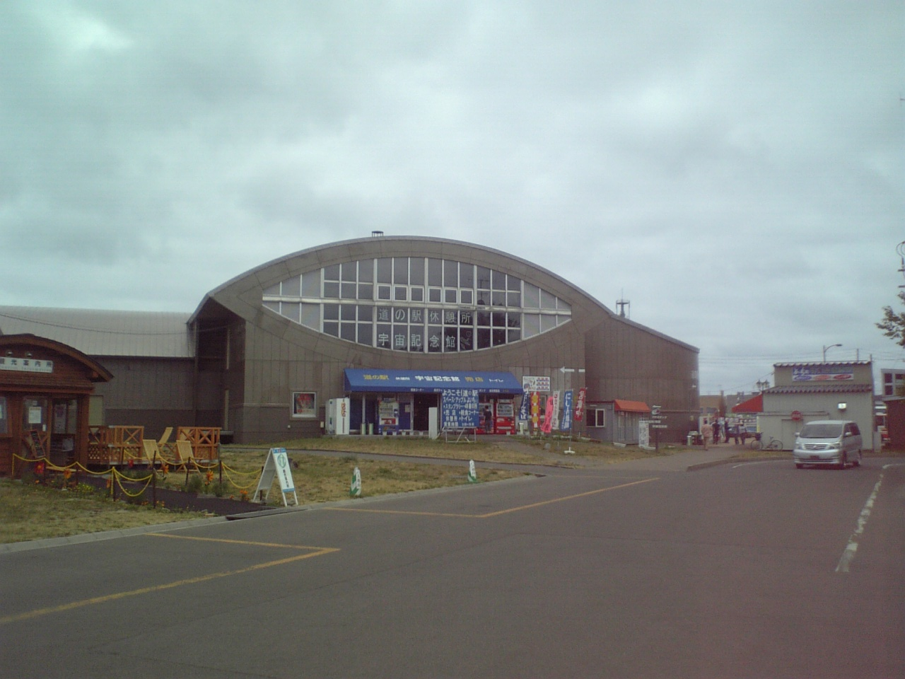 Michinoeki(Roadside Station) Space Apple Yoichi (Yoichi, Hokkaidō)